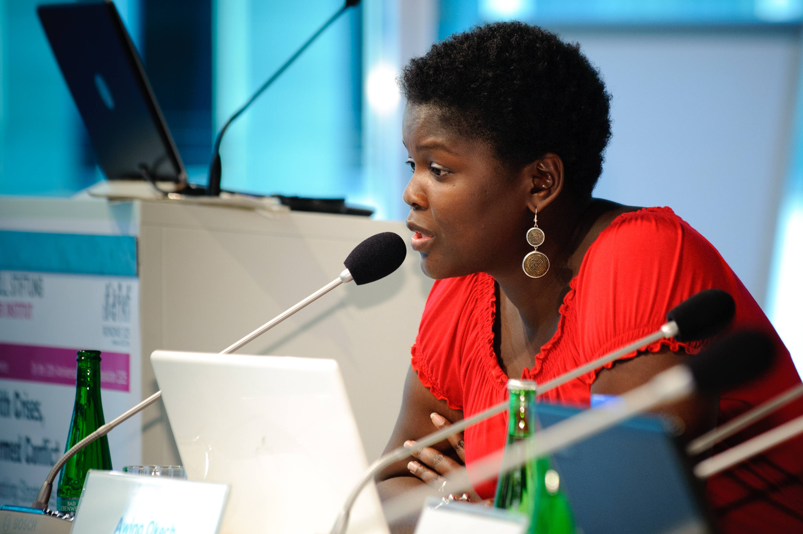 Awino Okech (Univ. of Cape Town) Photo: Stephan Röhl